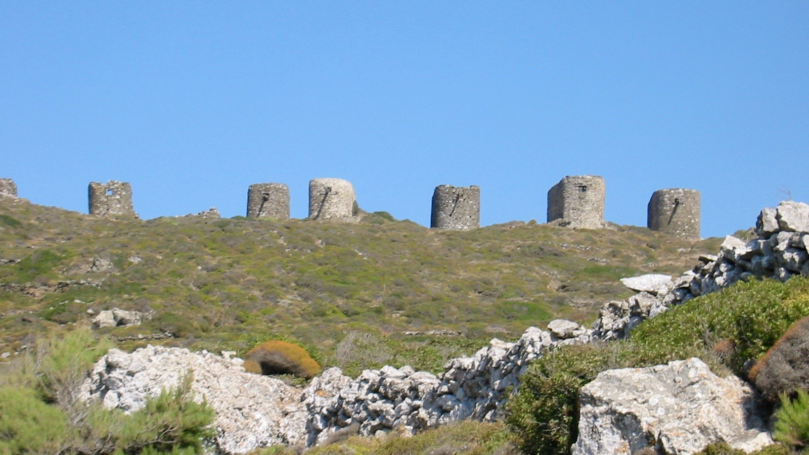 Στην είσοδο του χωριού συναντάμε τα ερείπια των πέτρινων μύλων, ακόμη και σήμερα ο ένας από αυτούς είναι σε λειτουργία